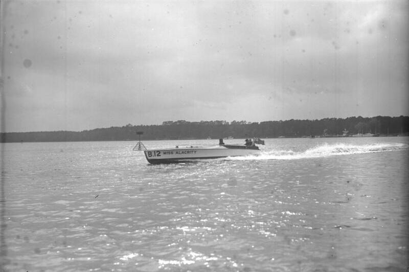 Henry Segrave's Miss Alacrity on Templiner See